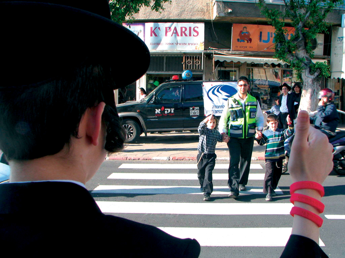 Zaka_Prevention_Routiere